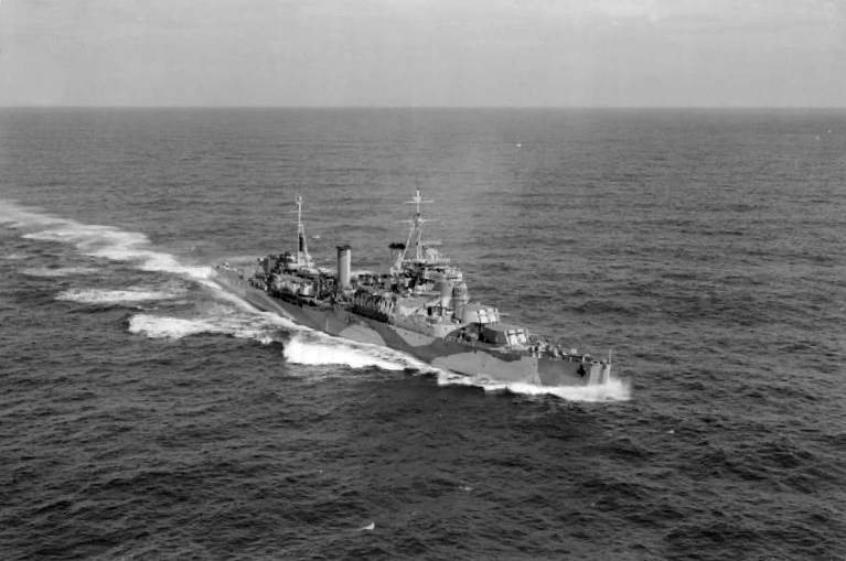 British light cruiser HMS Gambia (48) underway at sea.